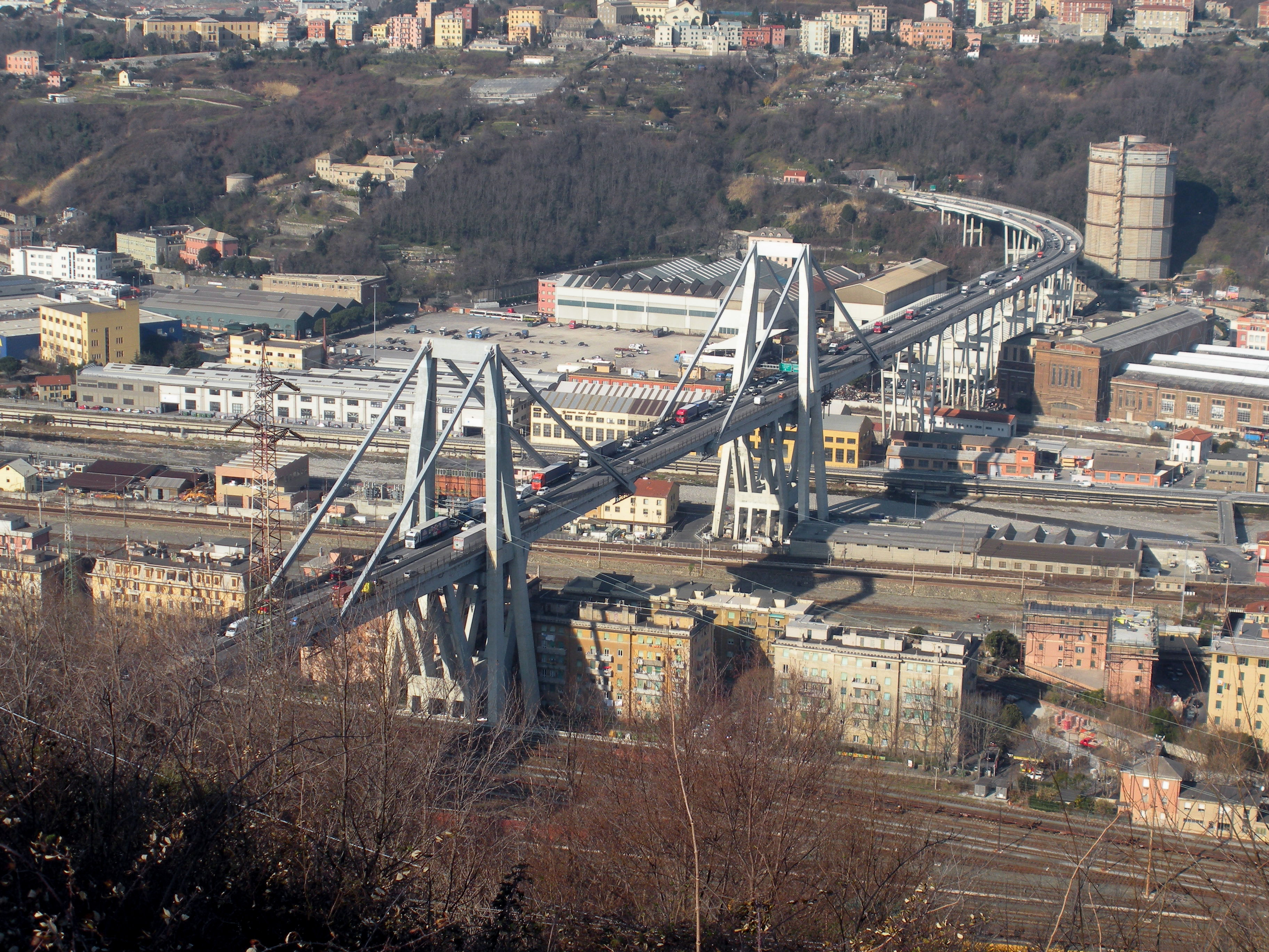 Genoa, Italy, Polcevera bridge of A10 highway, known as "Morandi bridge"